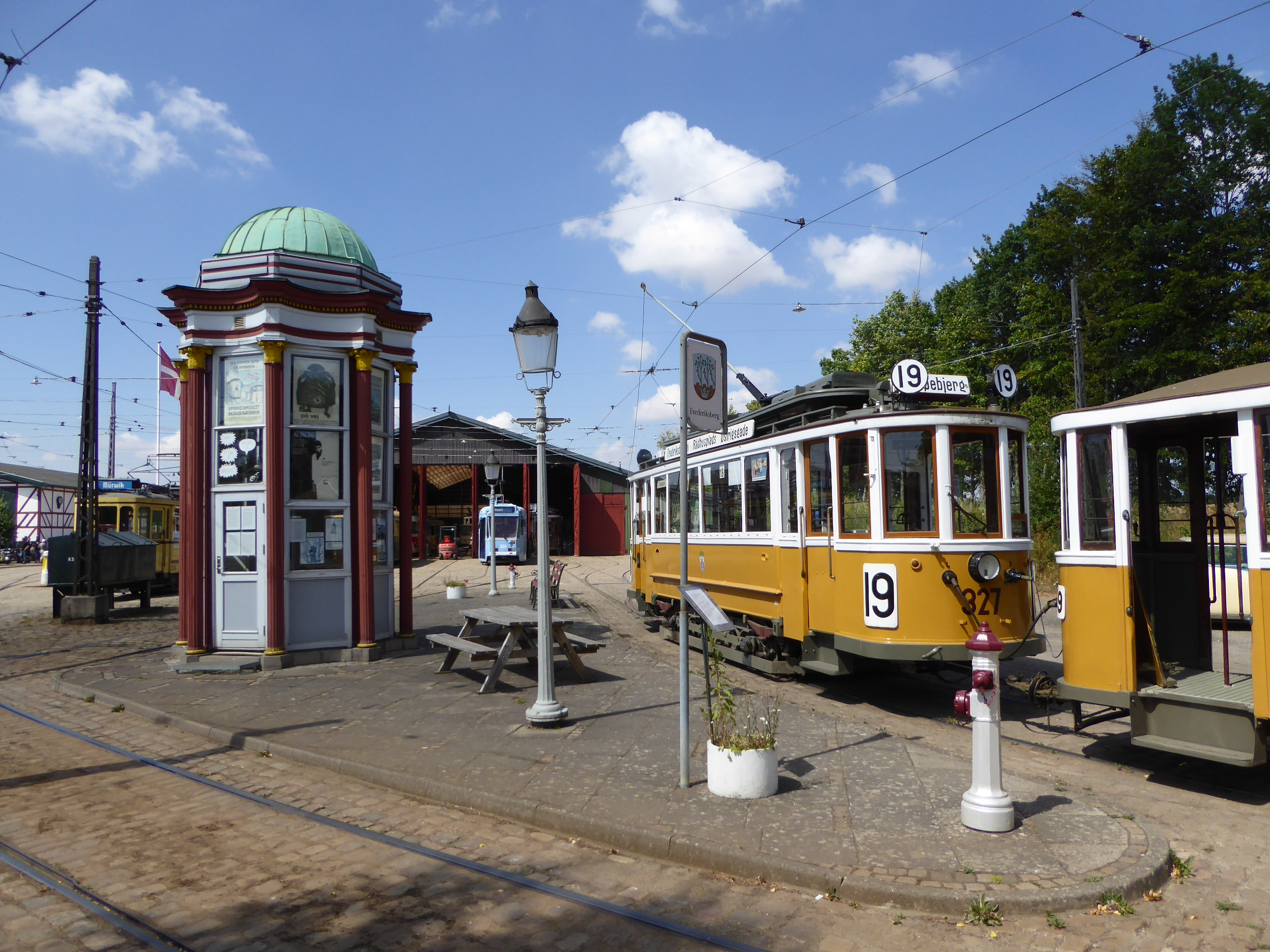 Telephone kiosk and other street furniture from Frederiksberg in Copenhagen at Sporvejsmuseet Skjoldenæsholm in Denmark. The tram behind them is KS 327 of Copenhagen from 1912.